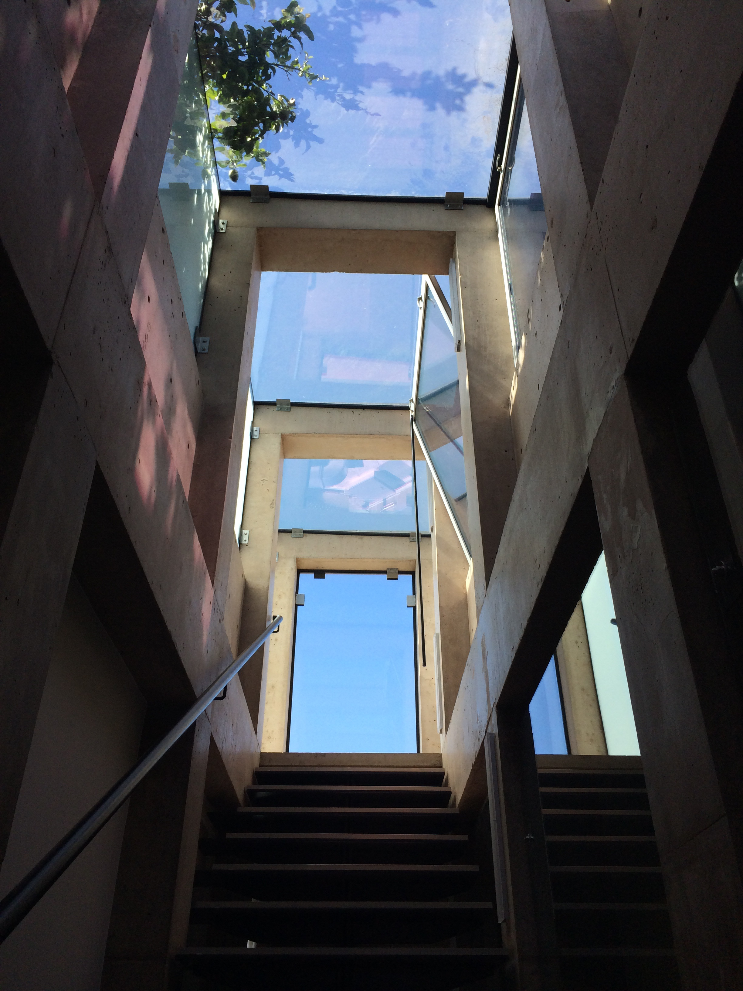 Joseph Bellomo Architects